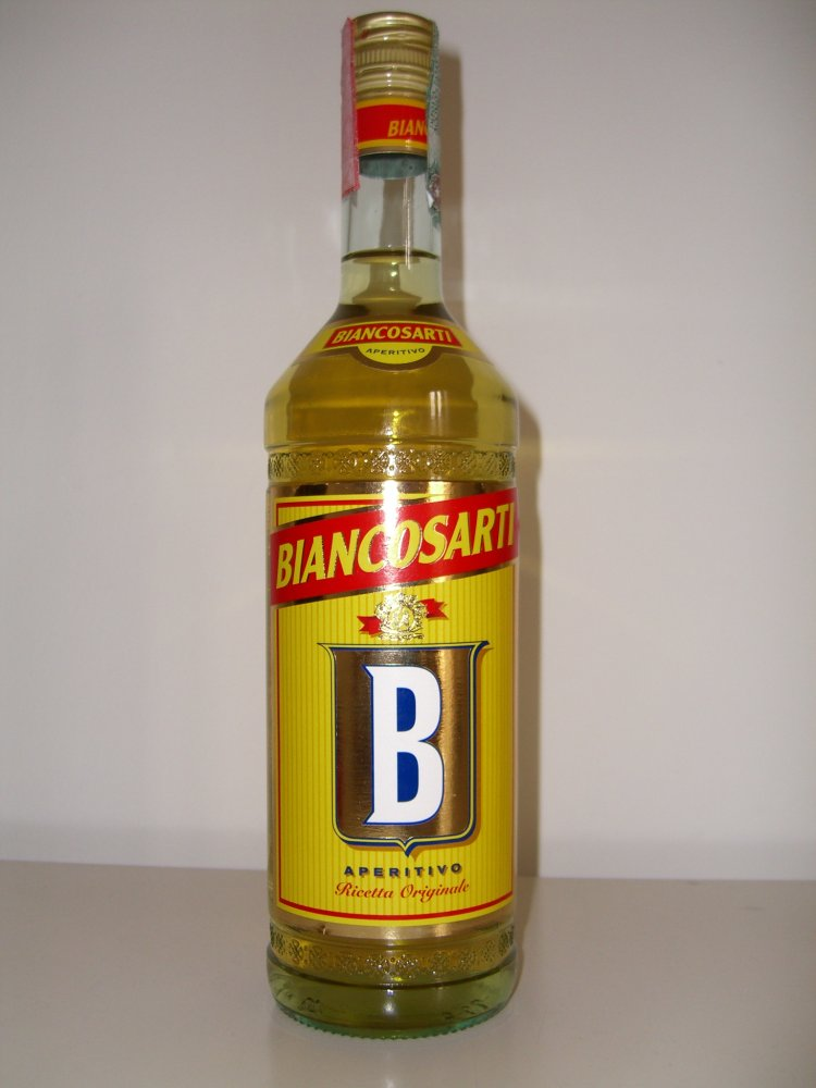 Copied from the Italian wikipedia. Original file Bottle of Biancosarti. Florence, May 2006.